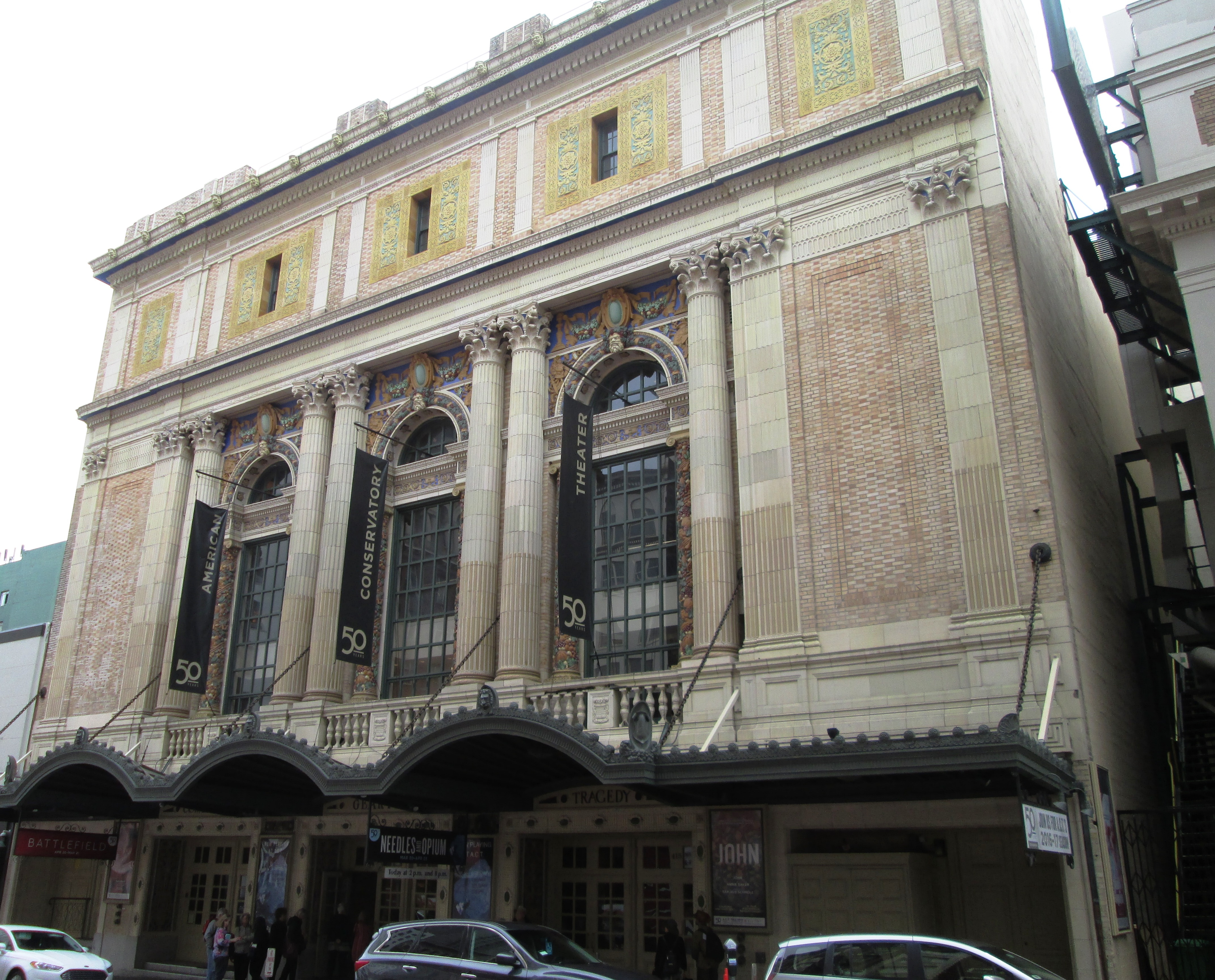 The Geary Theatre, located at 415 Geary Street at the corner of Mason Street in the Theatre District of San Francisco, California, was built in 1910 and was previously called the Columbia Thetaqre. It was designed by the firm of Bliss and Faville (Walter D. Bliss and William B. Faville), notable designers of theatres, in the Classical Revival and Late Victorian styles. The theater was added to the National Register of Historic Places on May 9, 1975 and was designated a San Francisco Landmark on July 11, 1976.